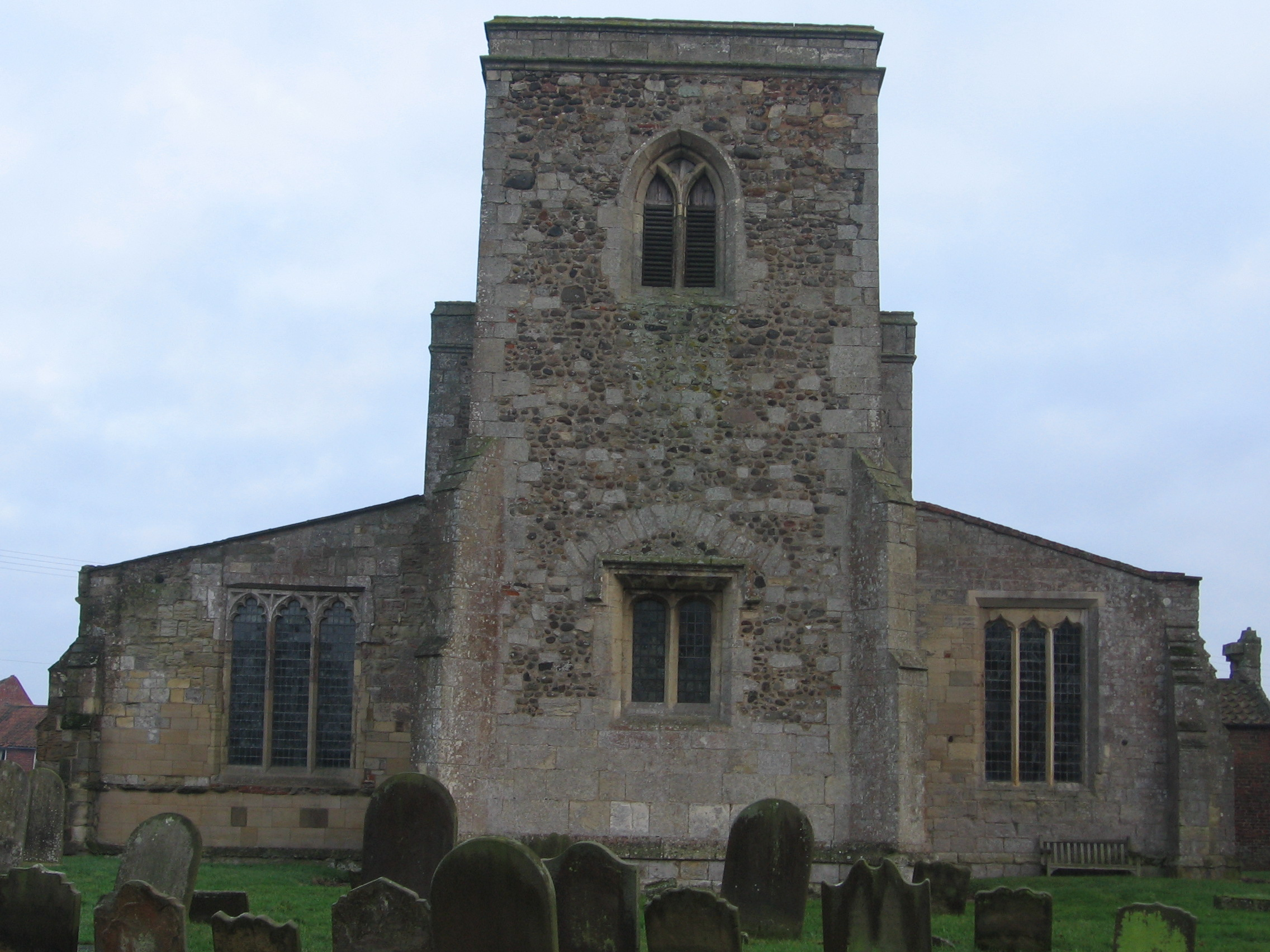 St Mary's Church Welwick, East Riding of Yorkshire, England.Photo taken by me on 22 December 2006.